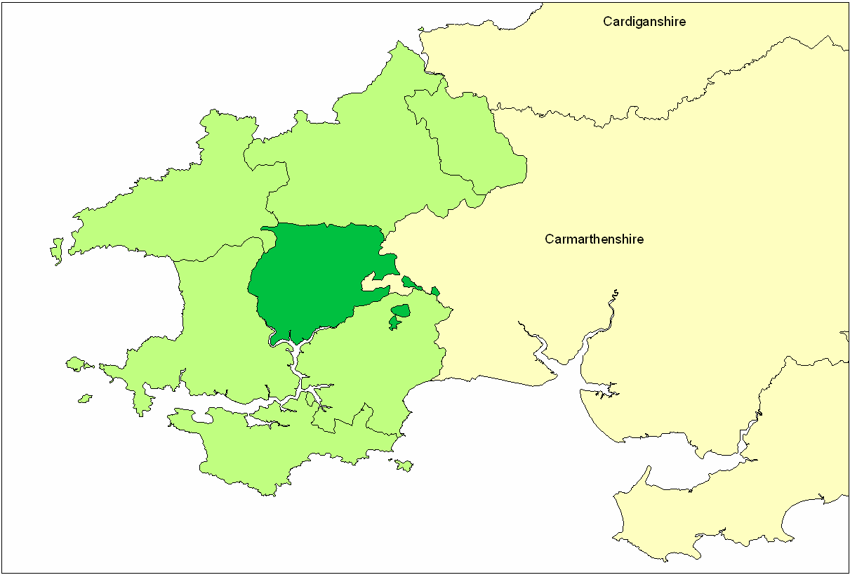 Map showing location of the ancient Hundred of Dungleddy in Pembrokeshire